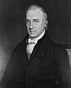 from public domain painting from 19th century